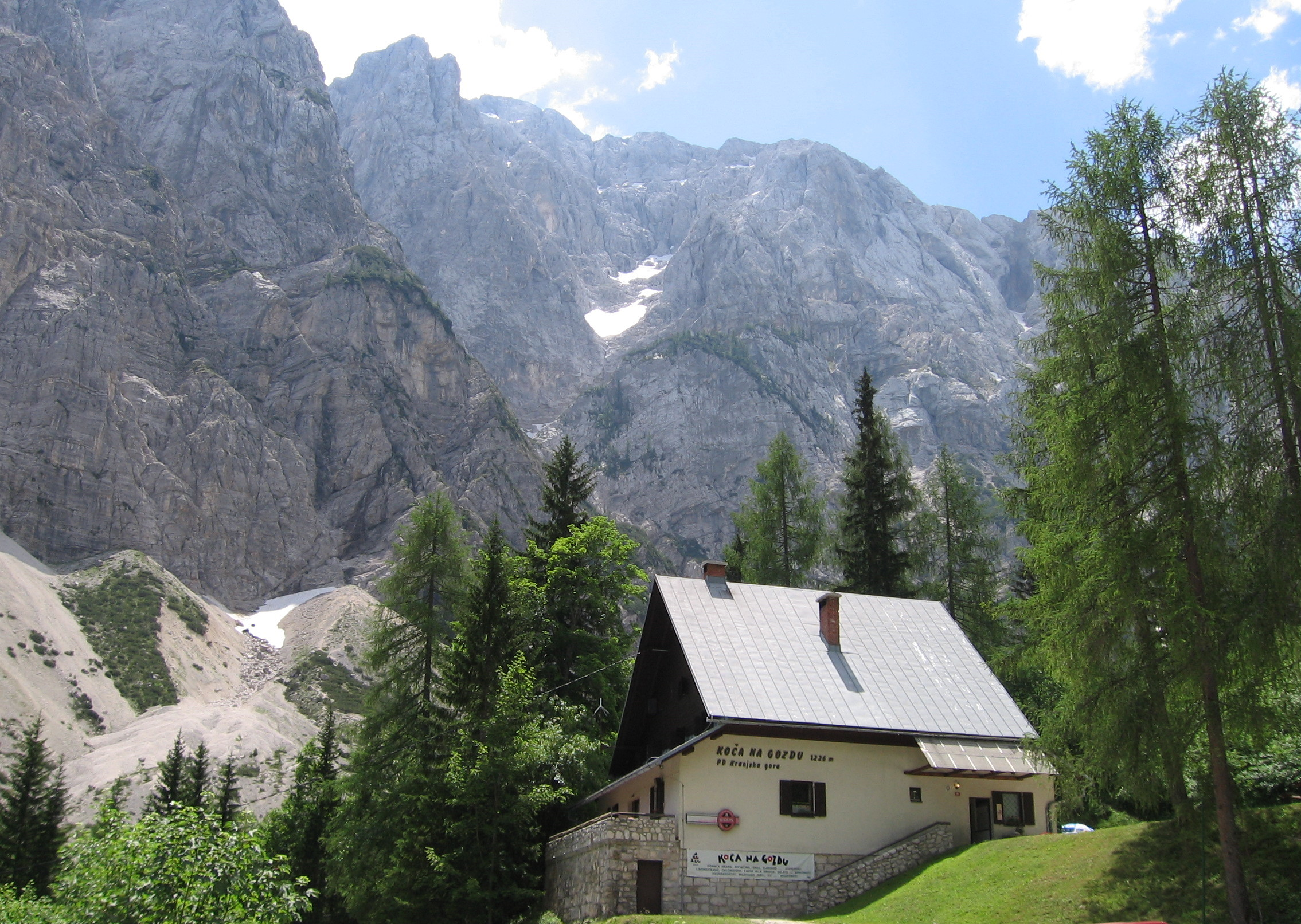 Hut on Gozd